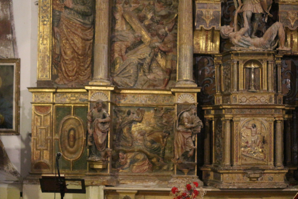 Retablo